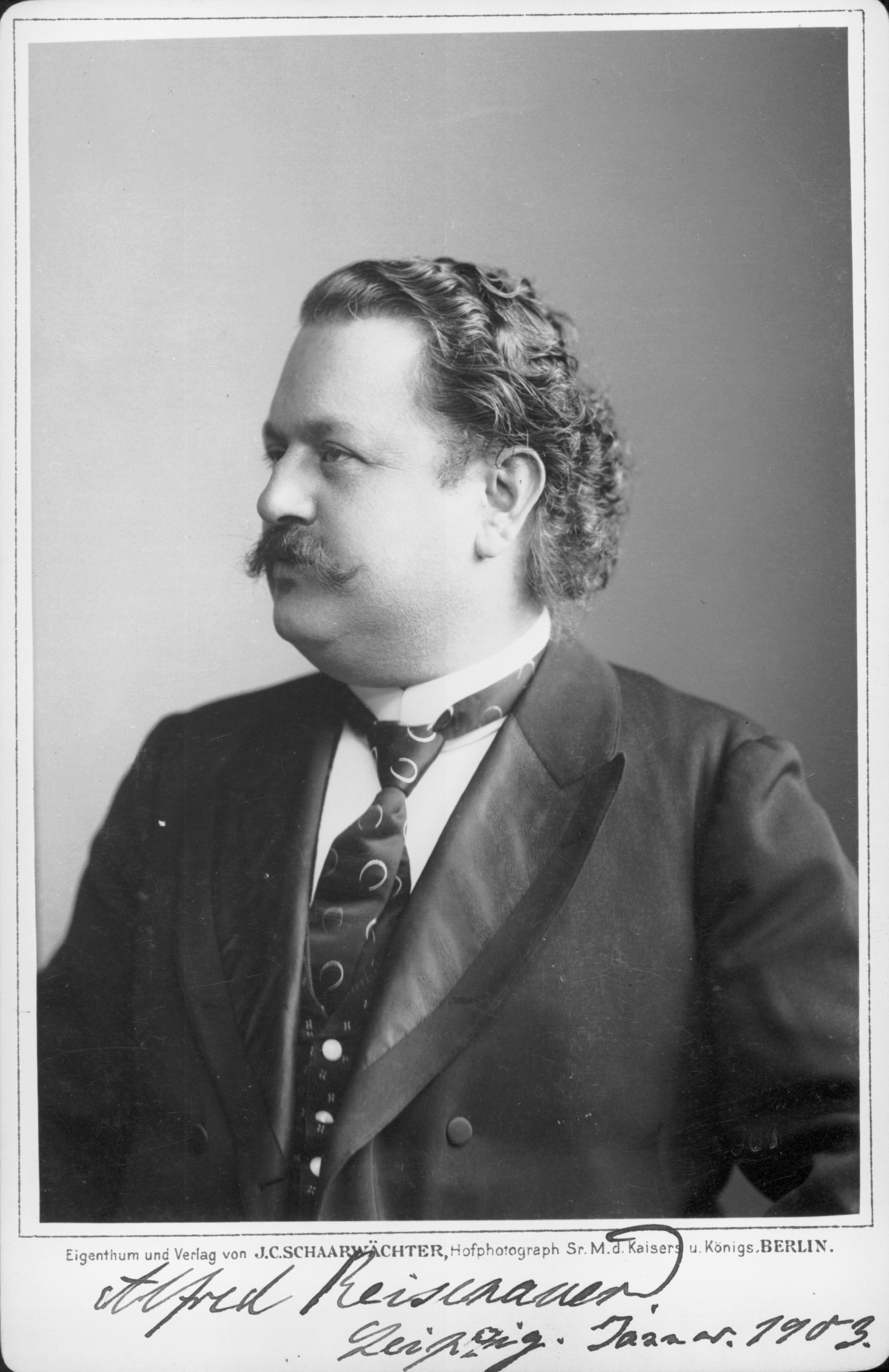 Portrait with signature of the German musician Alfred Reisenauer.